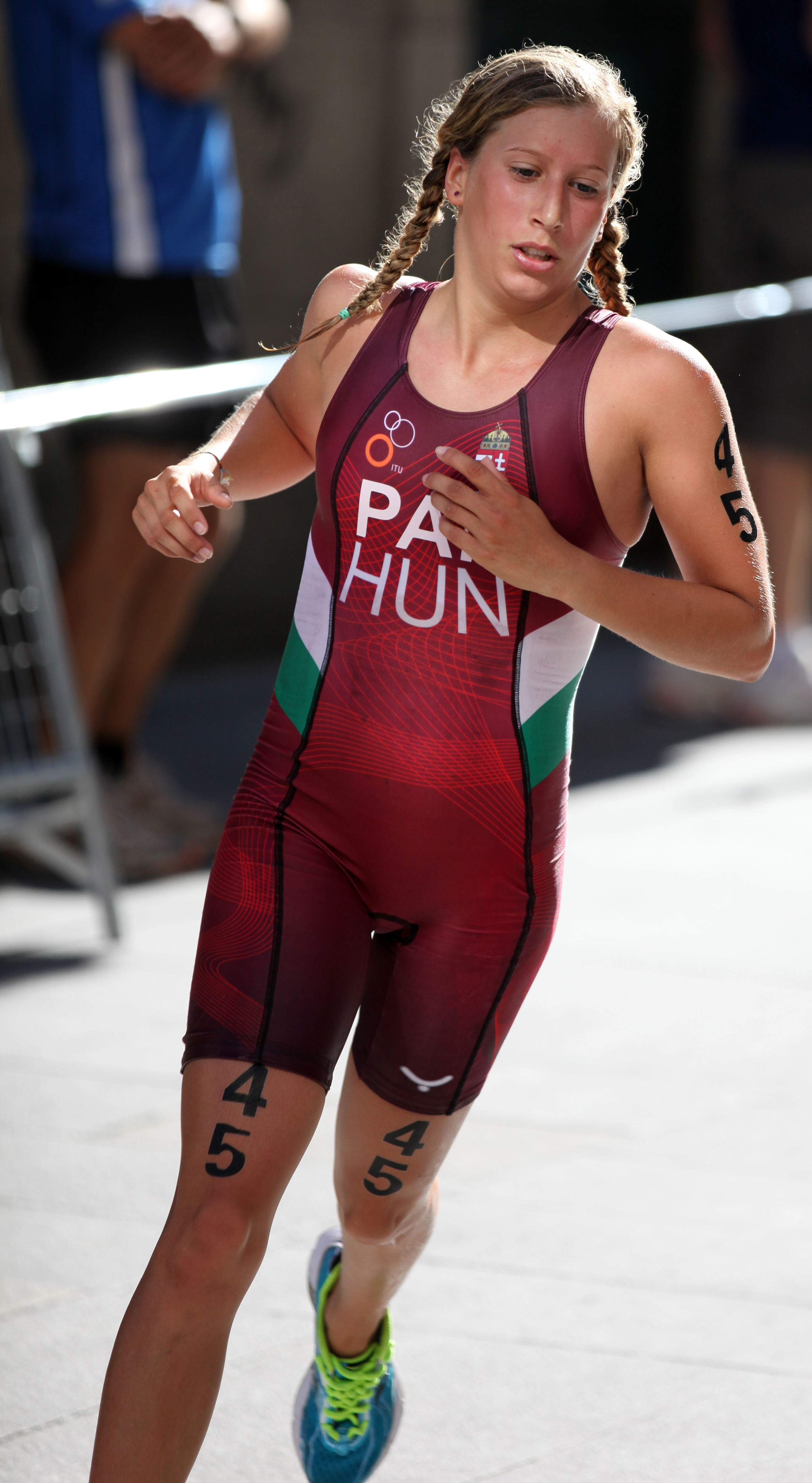 Eszter PAP, bronze medalist at the European Triathlon Championships in Pontevedra 2011.